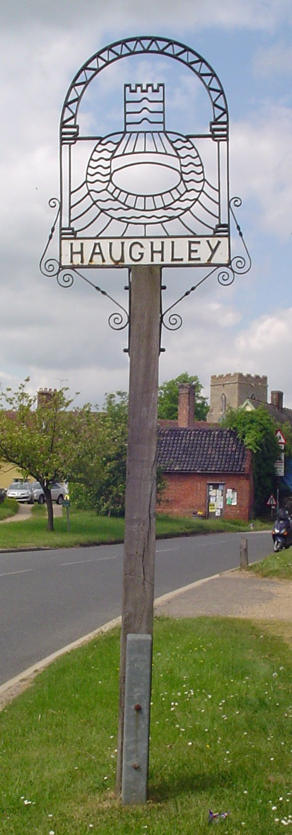 Signpost in Haughley